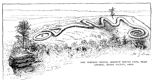 Image of the Serpent Mound from The Century; a popular quarterly. Appeared in Volume 39 Issue 6, April 1890